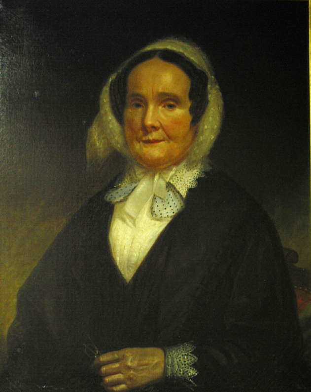 William Sidney Mount - Portrait of Mrs. Elizabeth Spinola, 1853 Mrs. Elizabeth Spinola (née Phelan; 1790–1873), was the mother of General Francis Barretto Spinola, and daughter of Captain John Phelan, who served during the Revolutionary War. The painting was commissioned by her son Francis B. Spinola, No. 90 York St. Brooklyn.